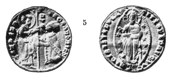 Sequin of Doge Pietro Gradenigo of Venice (1289–1310).